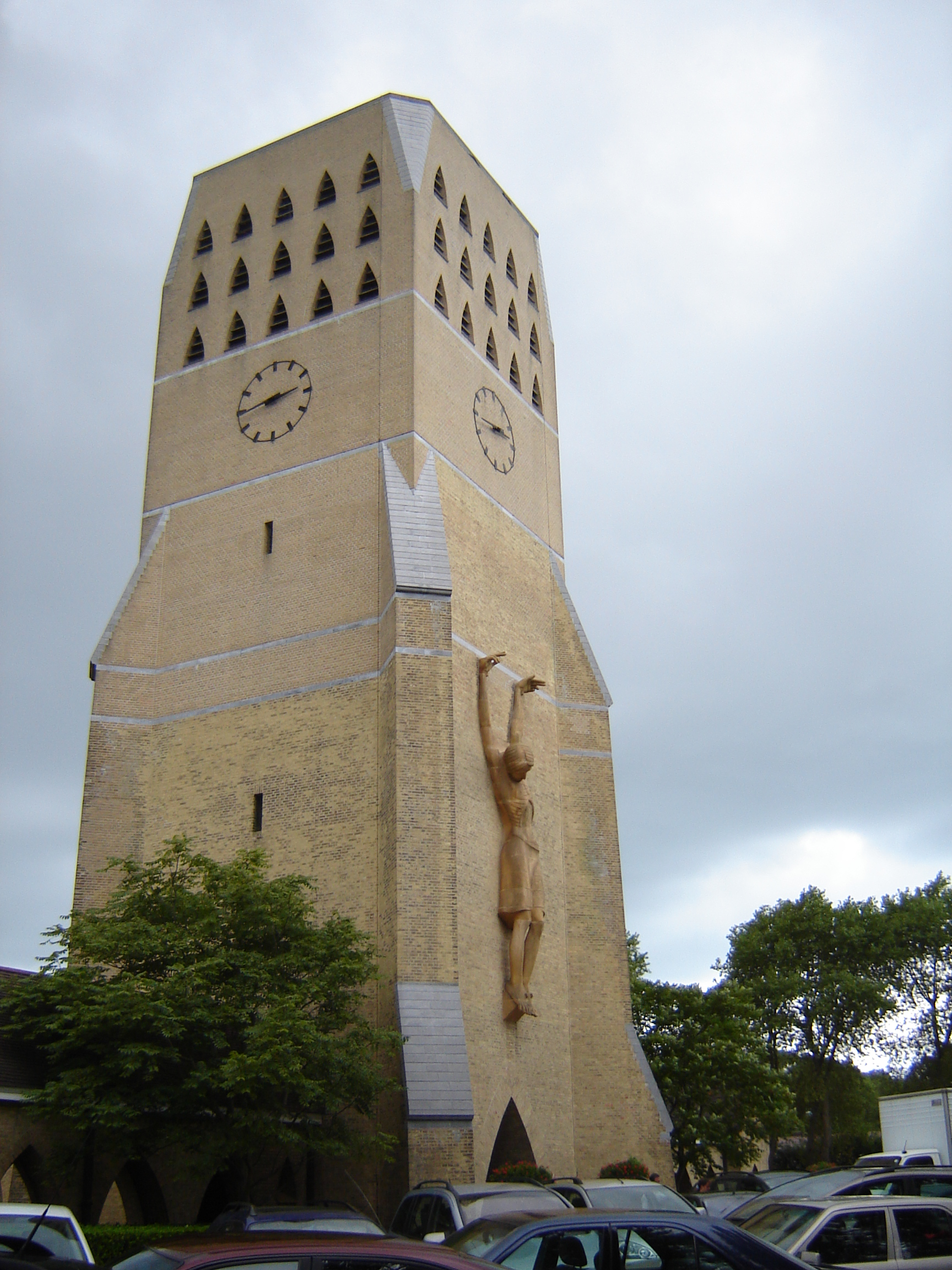 Church of Saint Nicholas in Oostduinkerke. Oostduinkerke, Koksijde, West Flanders, Belgium